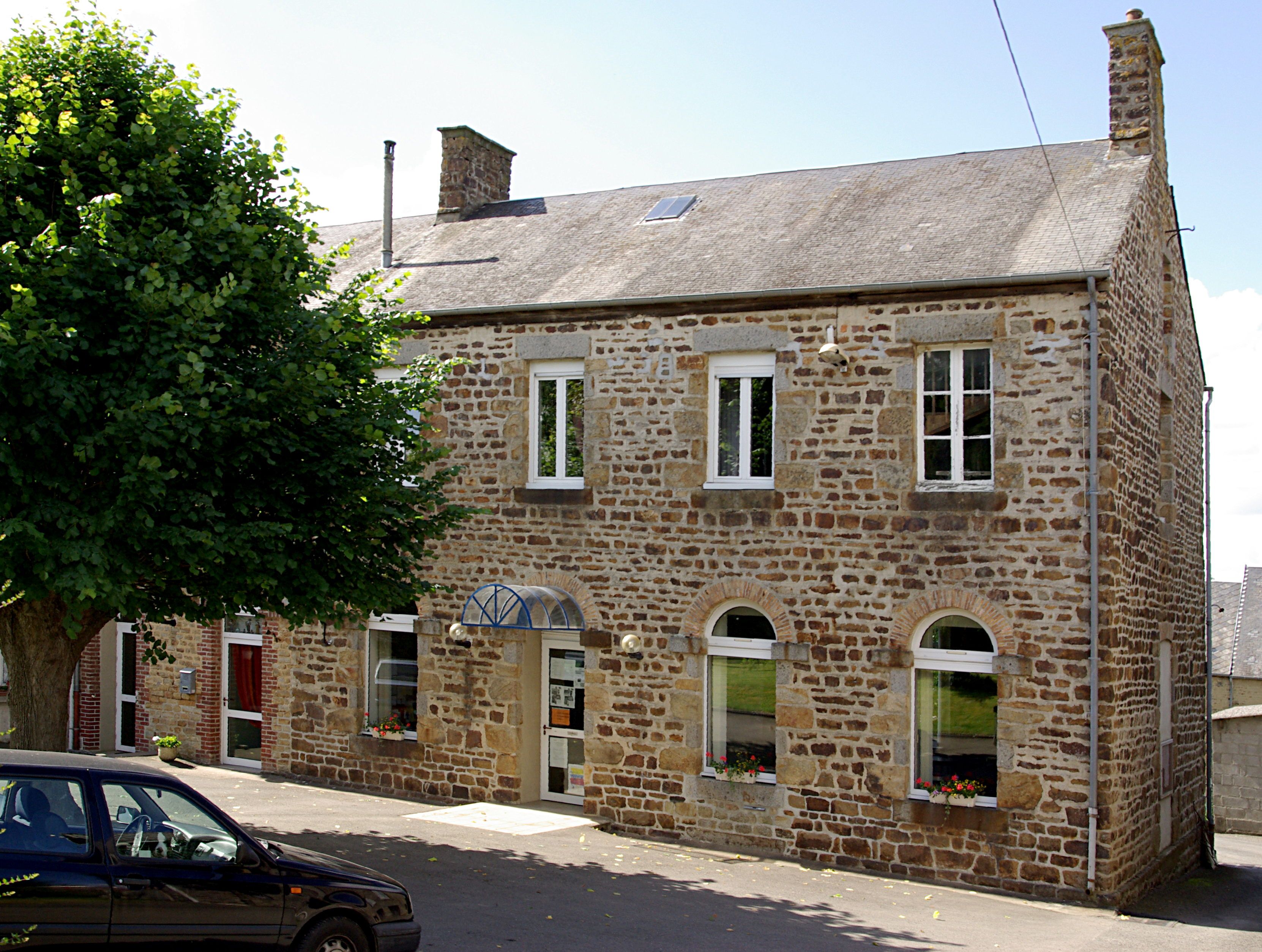 Town hall of St Pierre-d'entremont in Orne 61 France